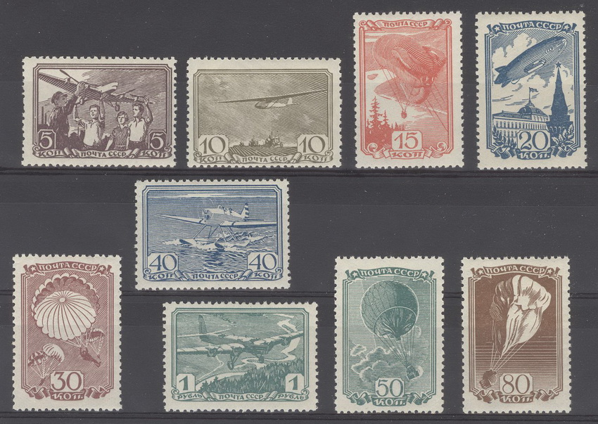 Stamp of USSR